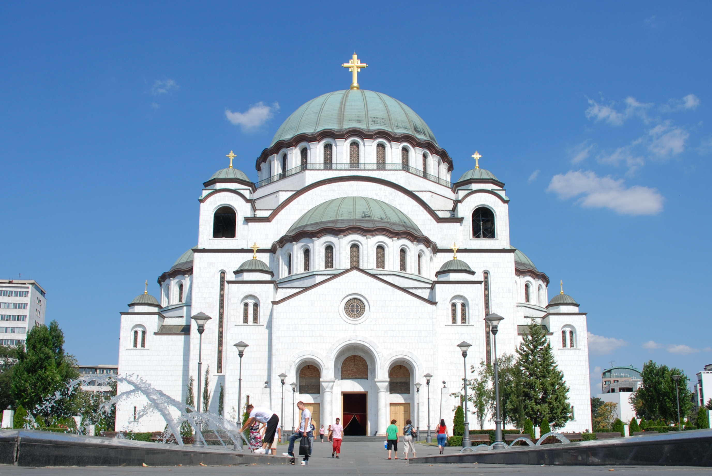 The Cathedral of Saint Sava is an Orthodox church in Belgrade, the capital of Serbia, the largest in the world. The church is dedicated to Saint Sava, founder of the Serbian Orthodox Church and an important figure in medieval Serbia. It is built on the Vracar plateau, on the location where his remains are thought to have been burned in 1595 by the Ottoman Empire's Sinan Pasha. From its location, it dominates Belgrade's cityscape, and is perhaps the most monumental building in the city. The building of the church structure is being financed exclusively by donations. The parish home is nearby, as will be the planned patriarchal building.